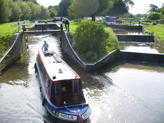 Papercourt Lock and Weir This is "The Lock That Moved". The lock-keeper's cottage is to the right, off camera. The narrowboat, "Bella", is heading downstream towards Newark Priory. See link for history on the old lock.